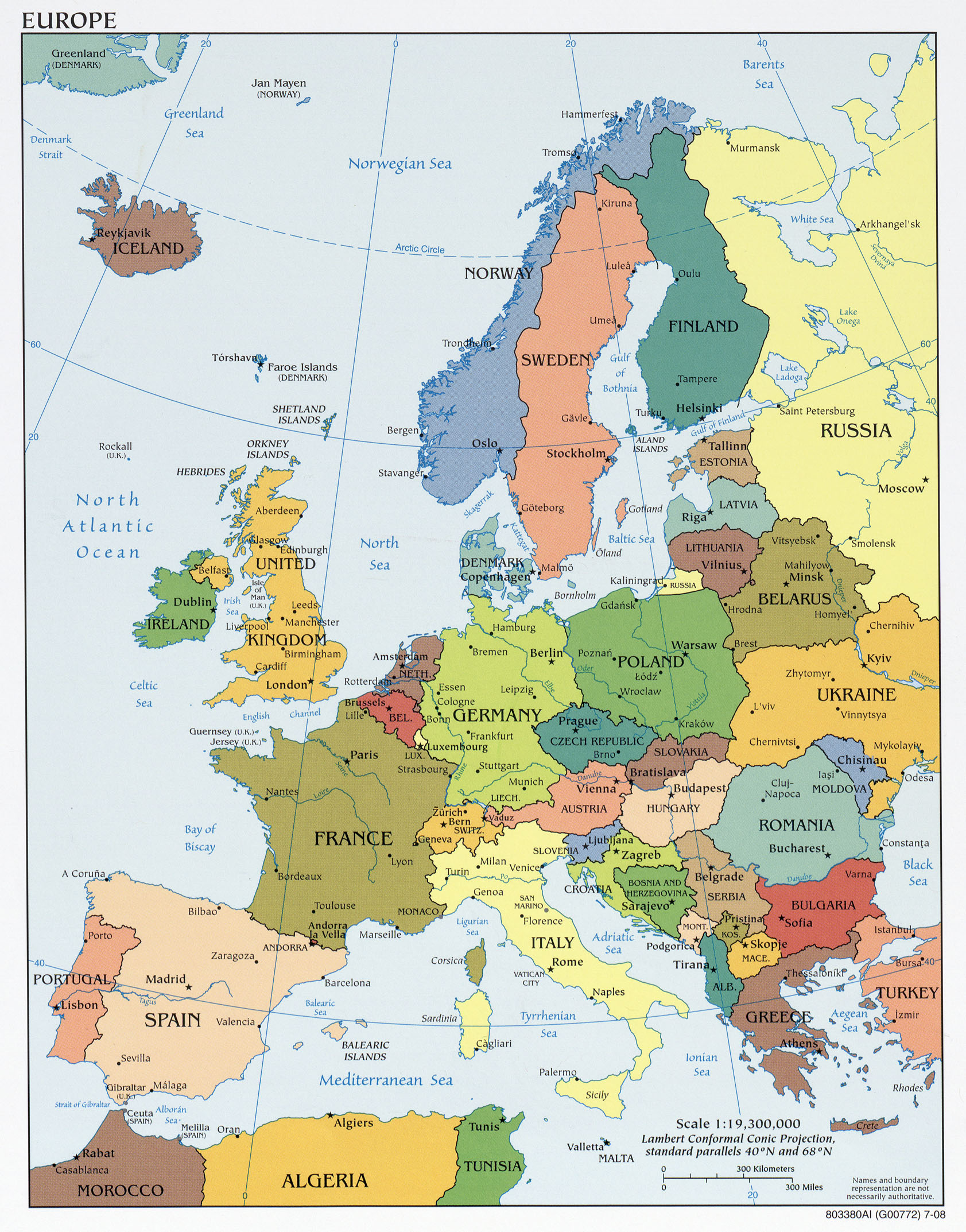 Europe political map in 2008 ENGLISH